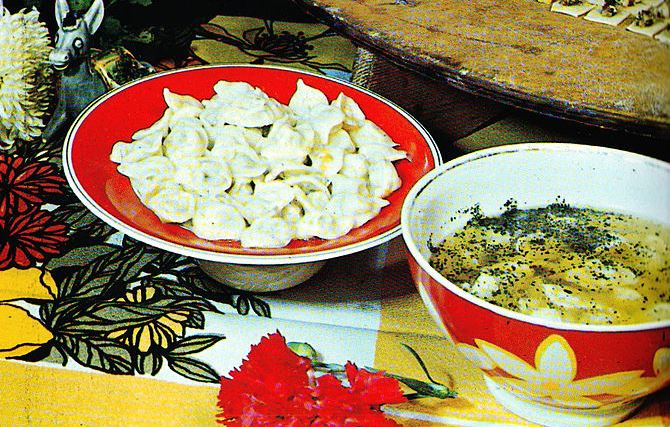 Azerbaijani dushbara